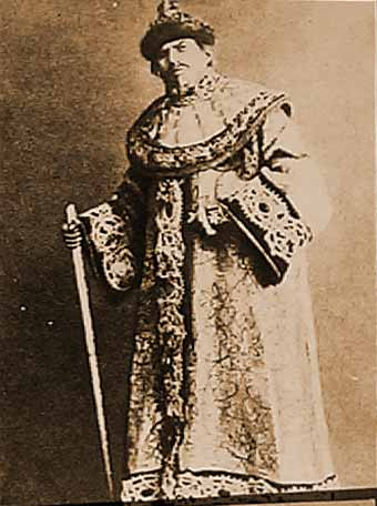 Vsevolod Meyerhold as Ivan IV in A.K.Tolstoy's play "Death of Ivan the Terrible".